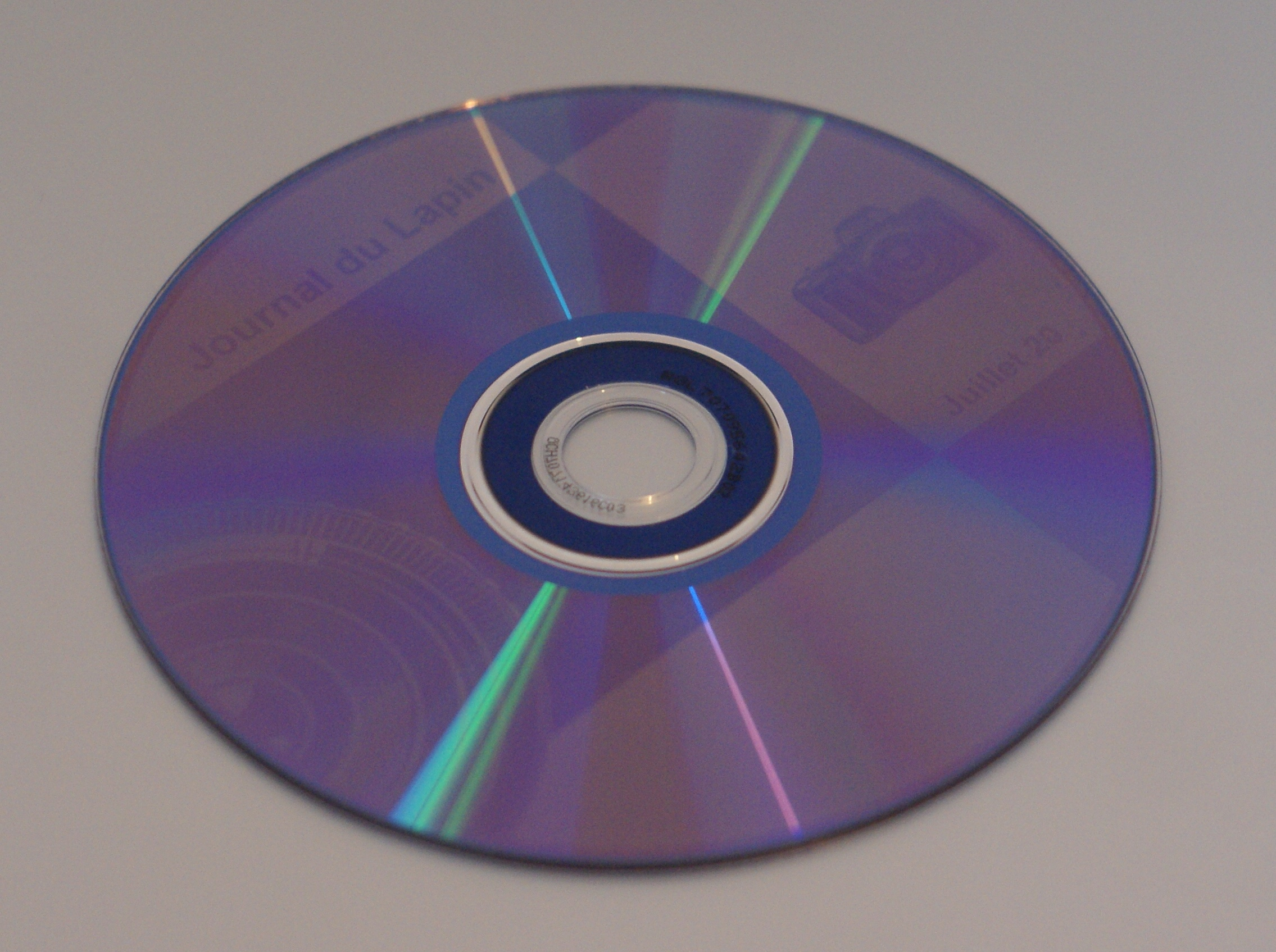 DiscT@2